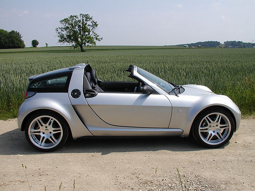 A Smart Roadster Coupe convertible.